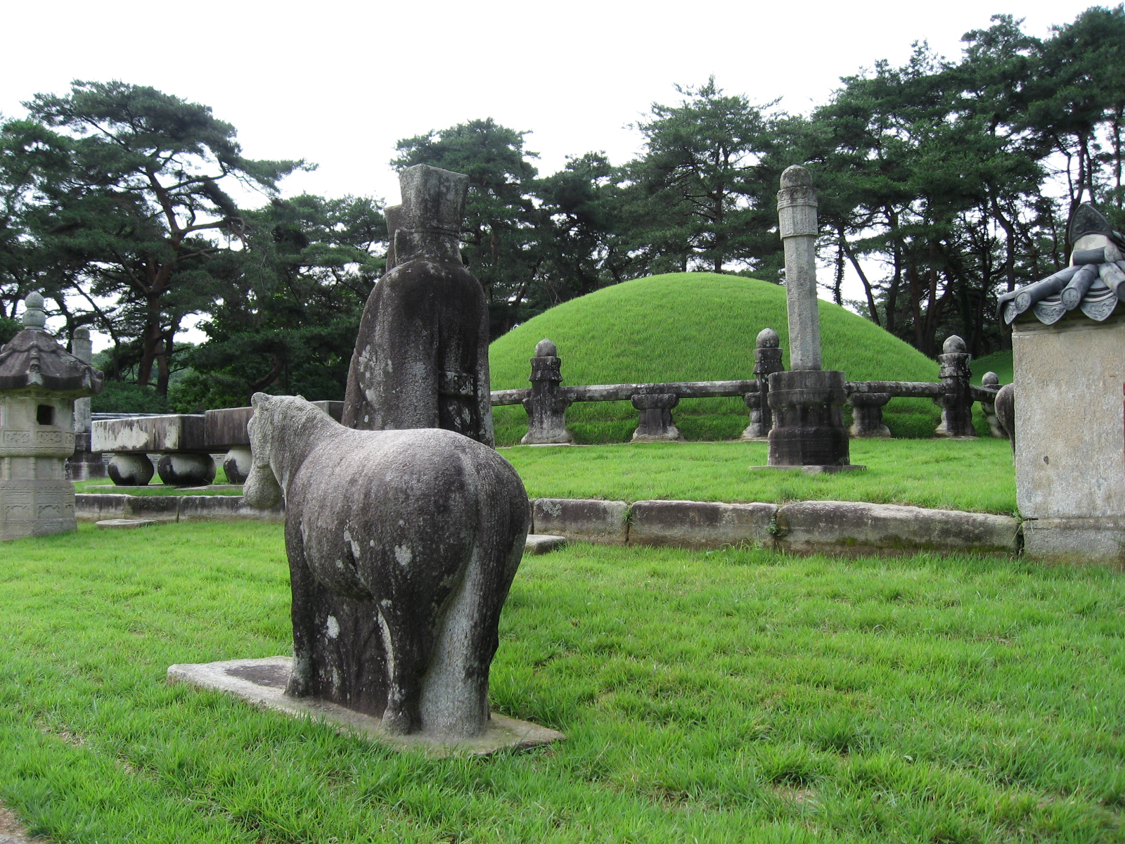 The tomb of King Sejong the Great of Joseon.